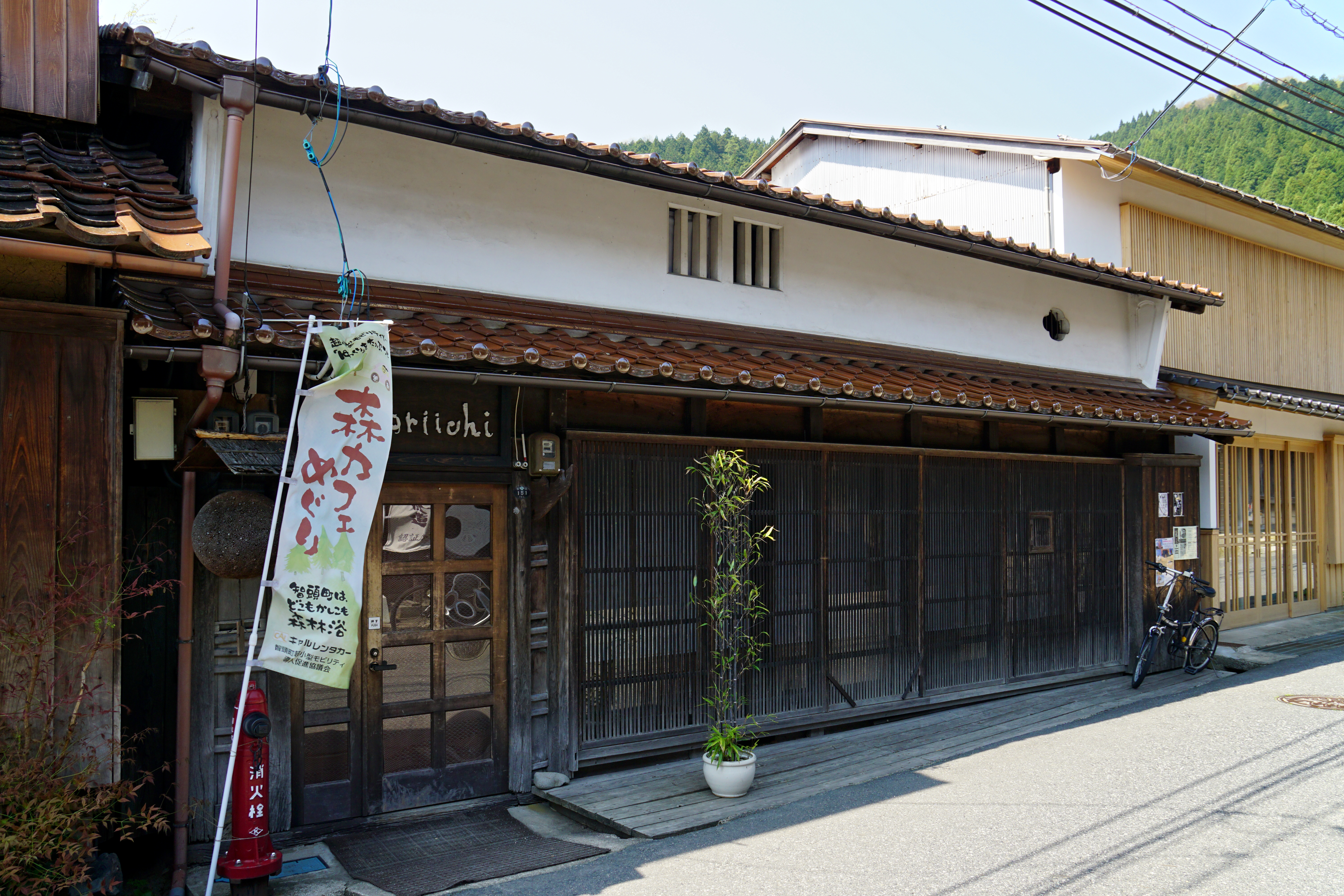 cafe&space Moriichi in Chizu, Tottori prefecture, Japan